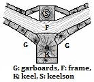 This illustration for the article Strake shows a cross-section of the bottom of a wooden boat, with garboard strakes, keel, frame, and keelson clearly labeled. It is based on but different from a similar illustration available to the public through the University of South Florida's Educational Technology Clearinghouse at which itself is a scan-and-clean-up of a long-expired drawing in the public domain. USF ETC allows the use of up to fifty (50) of their clipart illustrations for nonprofit educational purposes without written permission.